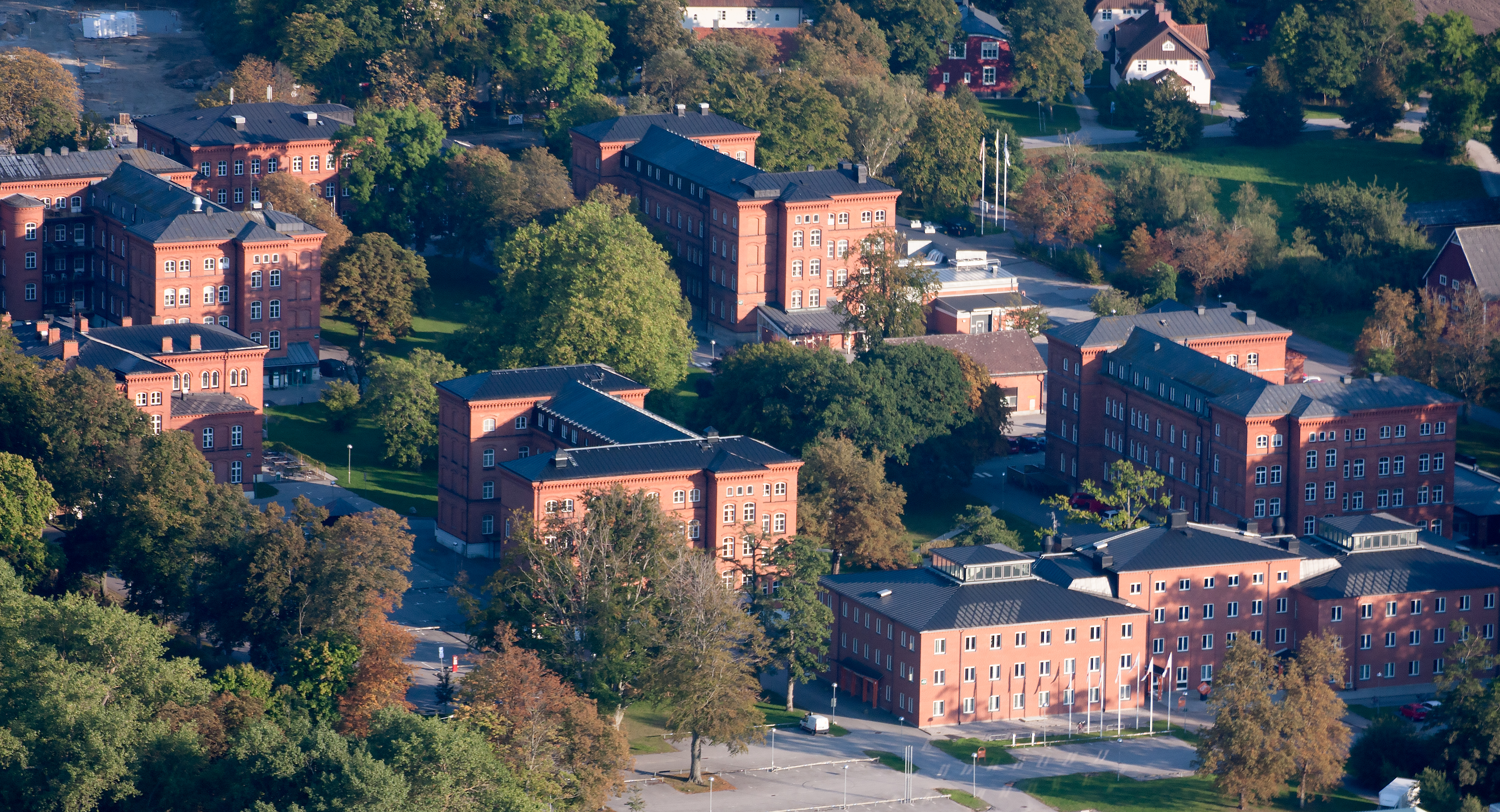 Saint Lars business park in Lund, Sweden.